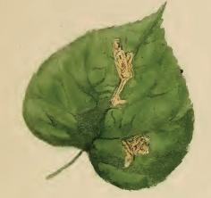 Stainton’s Natural History of the Tineina (1855–1873): Stigmella tiliae mined lime leaf